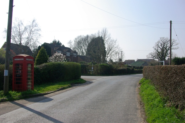 Mountfield, red phonebox